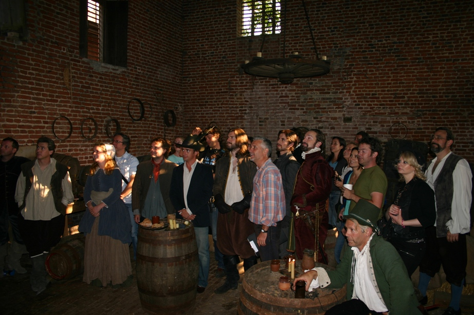 Cast and crew of the production "Exploding the Legend", featuring presenter Richard Hammond. This photograph taken in the Moat House at Kentwell Hall, Suffolk.